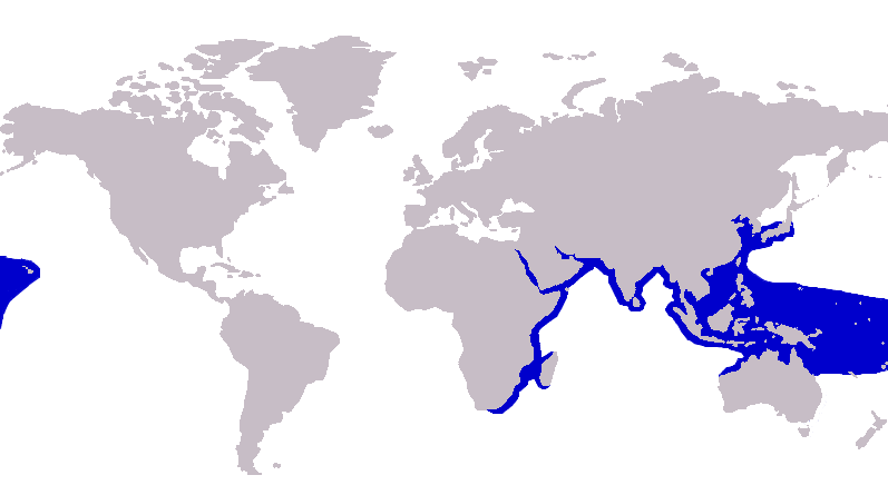 Approximate distribution of the yellowtail scad, Atule mate based on sources given in en wikipedia article. Map base from